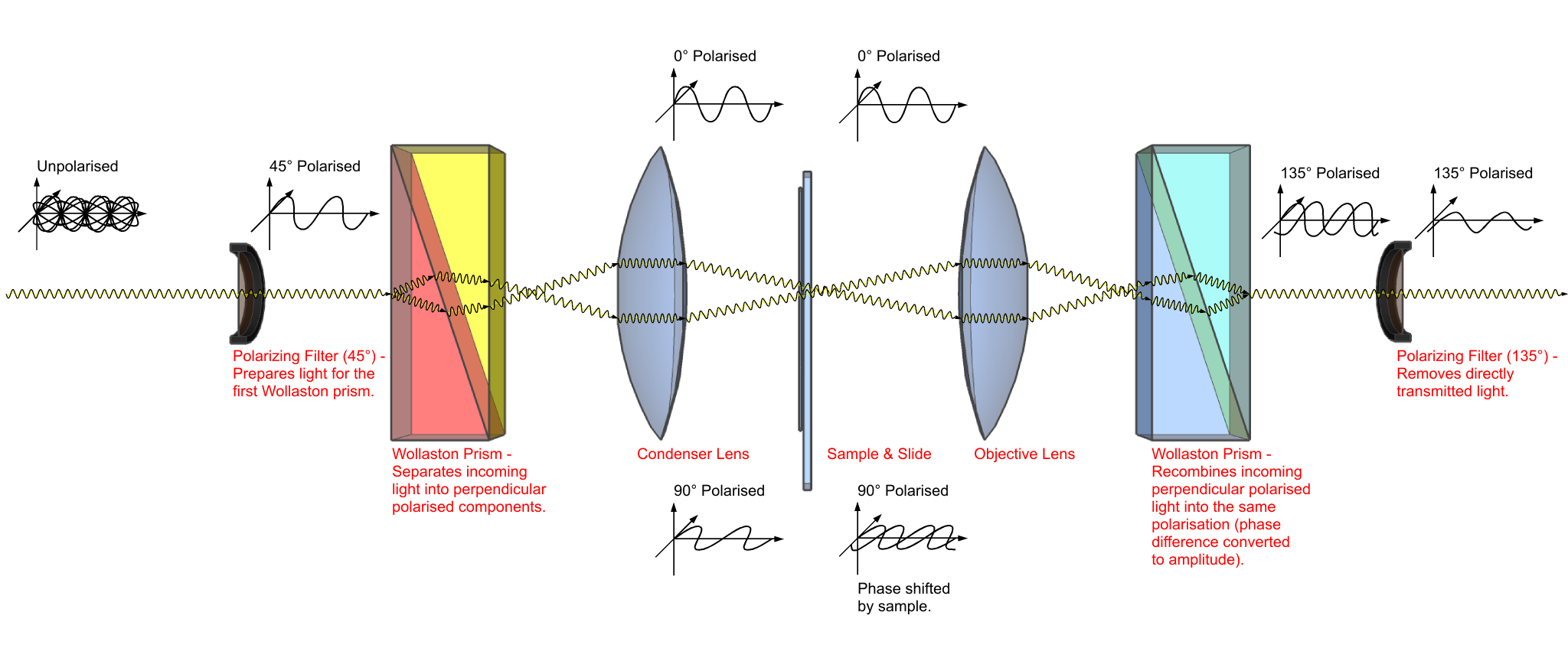 Diagram illustrating the path of light through a differential interference contrast microscope.